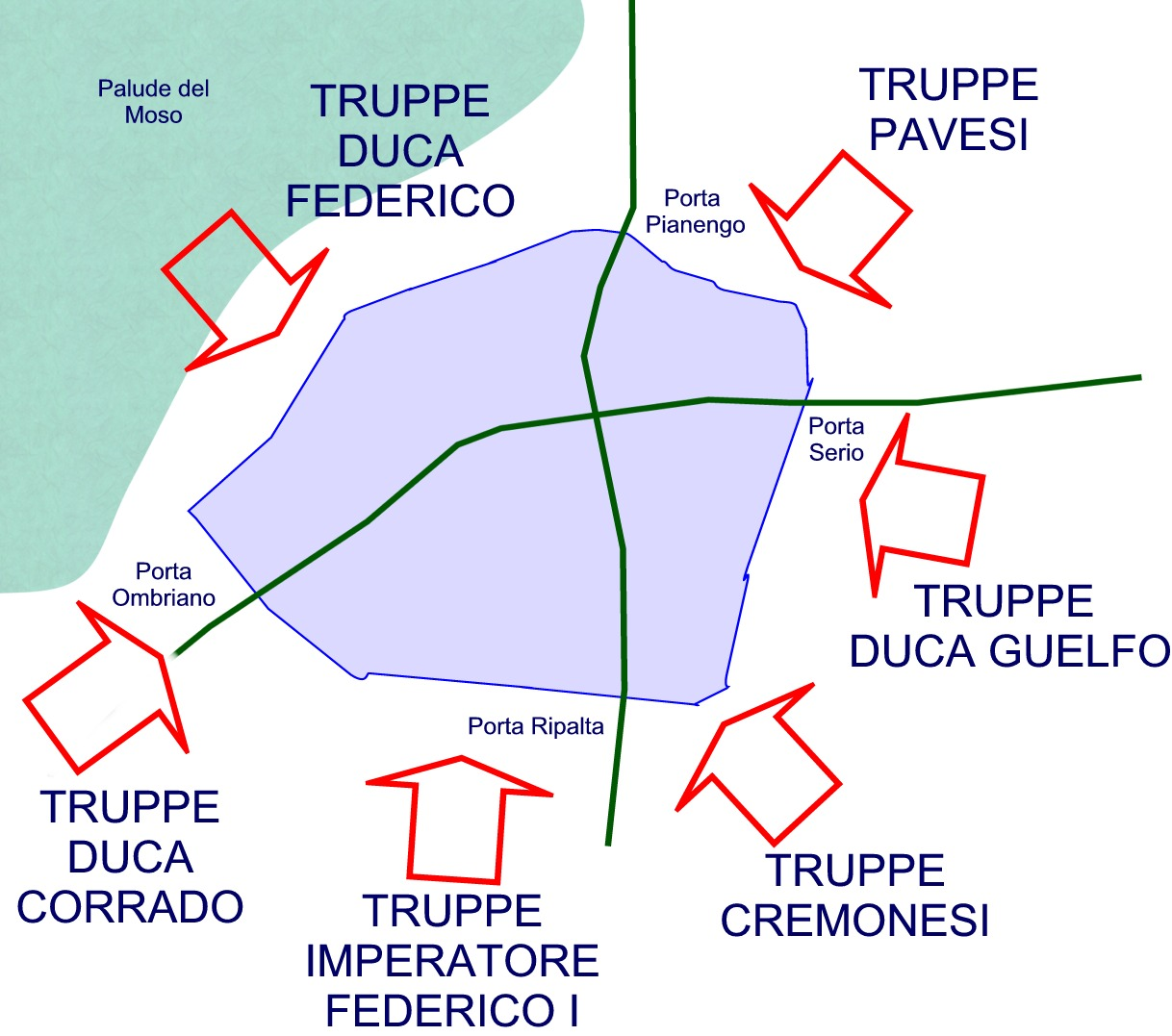 Siege of Crema (Italy)